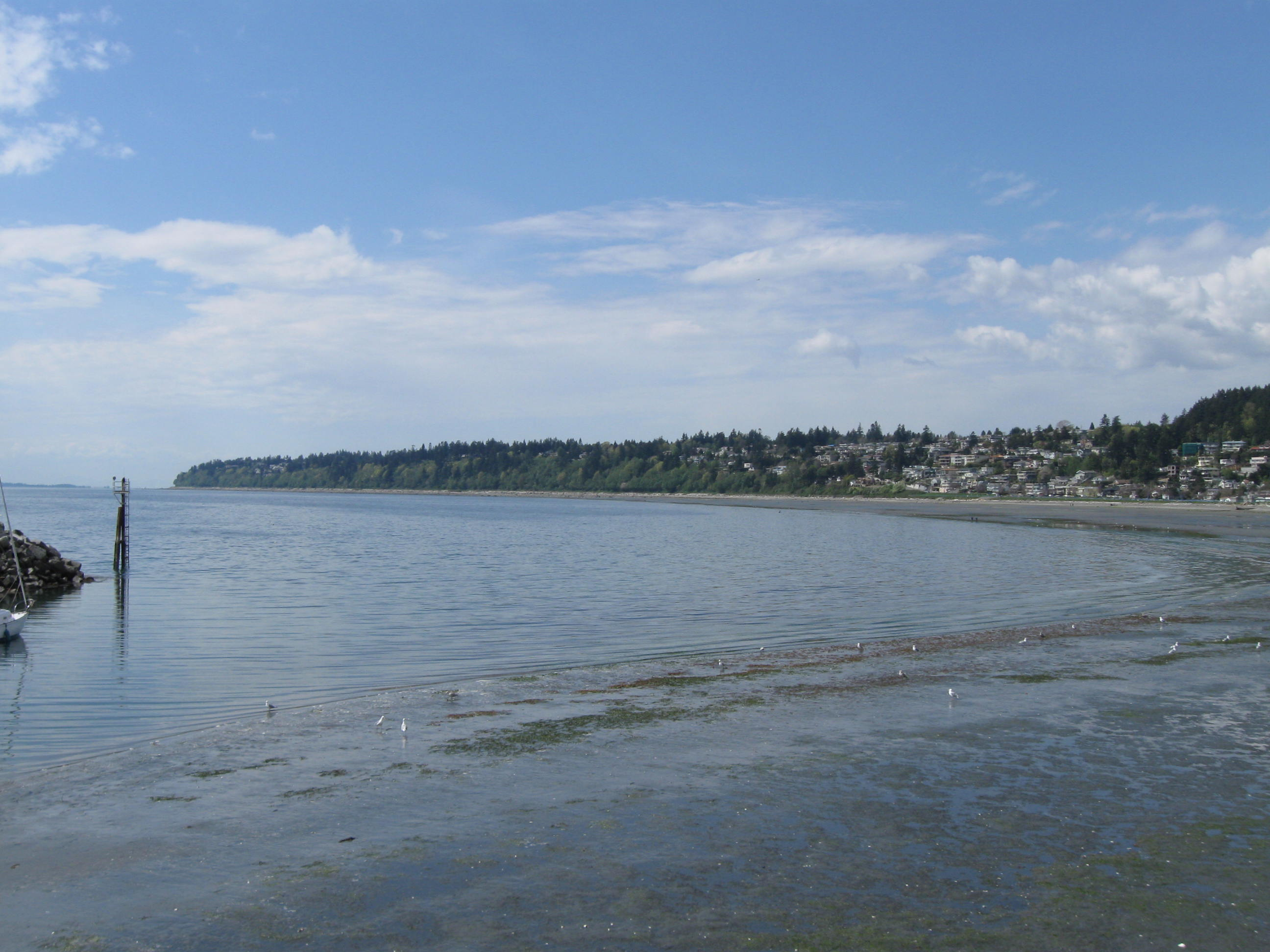 This is a view of Semiahmoo Bay off the City of White Rock, BC, Canada. It was taken by me from the White Rock Pier.